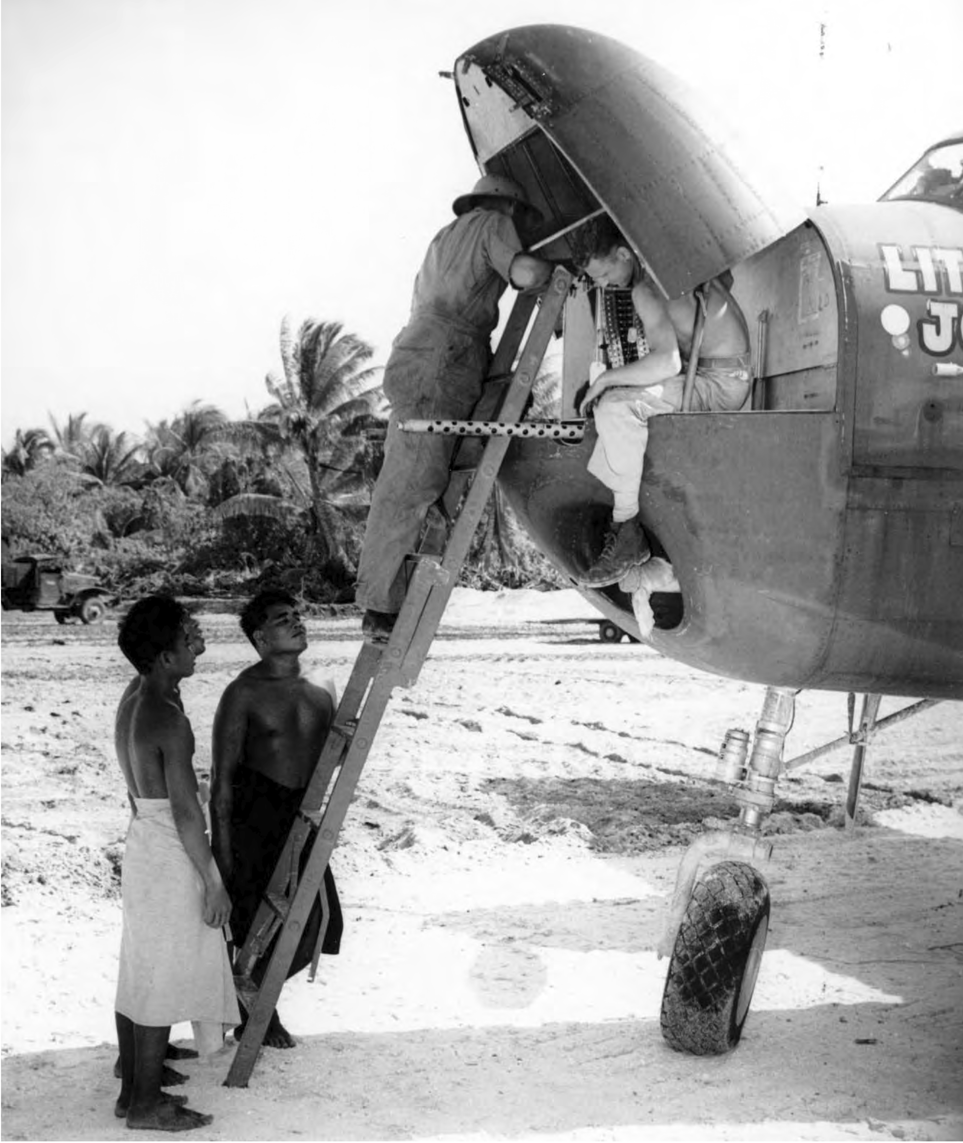 ARMORERS place a .50-caliber aircraft Browning machine gun M2A1 in the nose of a North American B–25 at the airfield on Betio Island (Hawkins Field (Tarawa)) as interested natives look on. This gun was considered one of the most reliable weapons of the war.